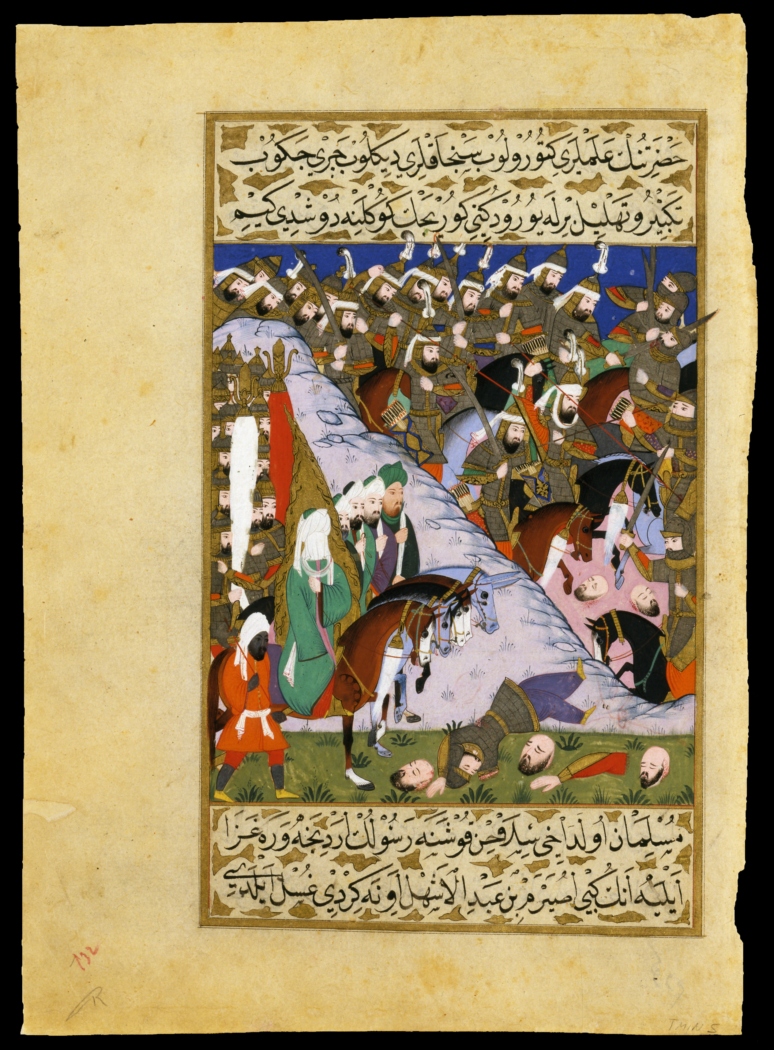 The Prophet Muhammad and the Muslim Army at the Battle of Uhud - Miniature from volume 4 of a copy of Mustafa al-Darir’s Siyar-i Nabi (Life of the Prophet). ”The Prophet Muhammad and the Muslim Army at the Battle of Uhud” Turkey, Istanbul; c. 1594 Leaf: 37.3 × 27 cm - When the Prophet Muhammad is depicted in historical or religious works from the world of Islam, he is almost always shown veiled because of his exalted position, though there are exceptions. The Prophet is seen here with his followers during the battle at the mountain of Uhud outside Medina in 625, when the Muslims suffered a defeat at the hands of troops sent out from Mecca. The miniature comes from a six-volume edition of Siyar-i Nabi that was commissioned by the Ottoman sultan Murad III and completed in the palace workshops in Istanbul in 1595, shortly after the sultan’s death.